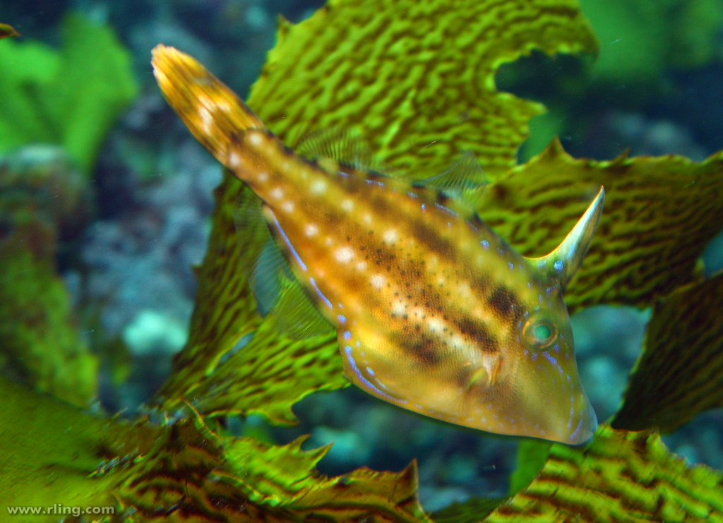 A Yellow-finned Leatherjacket (Meuschenia trachylepis). Statis Rock, Forster, NSW